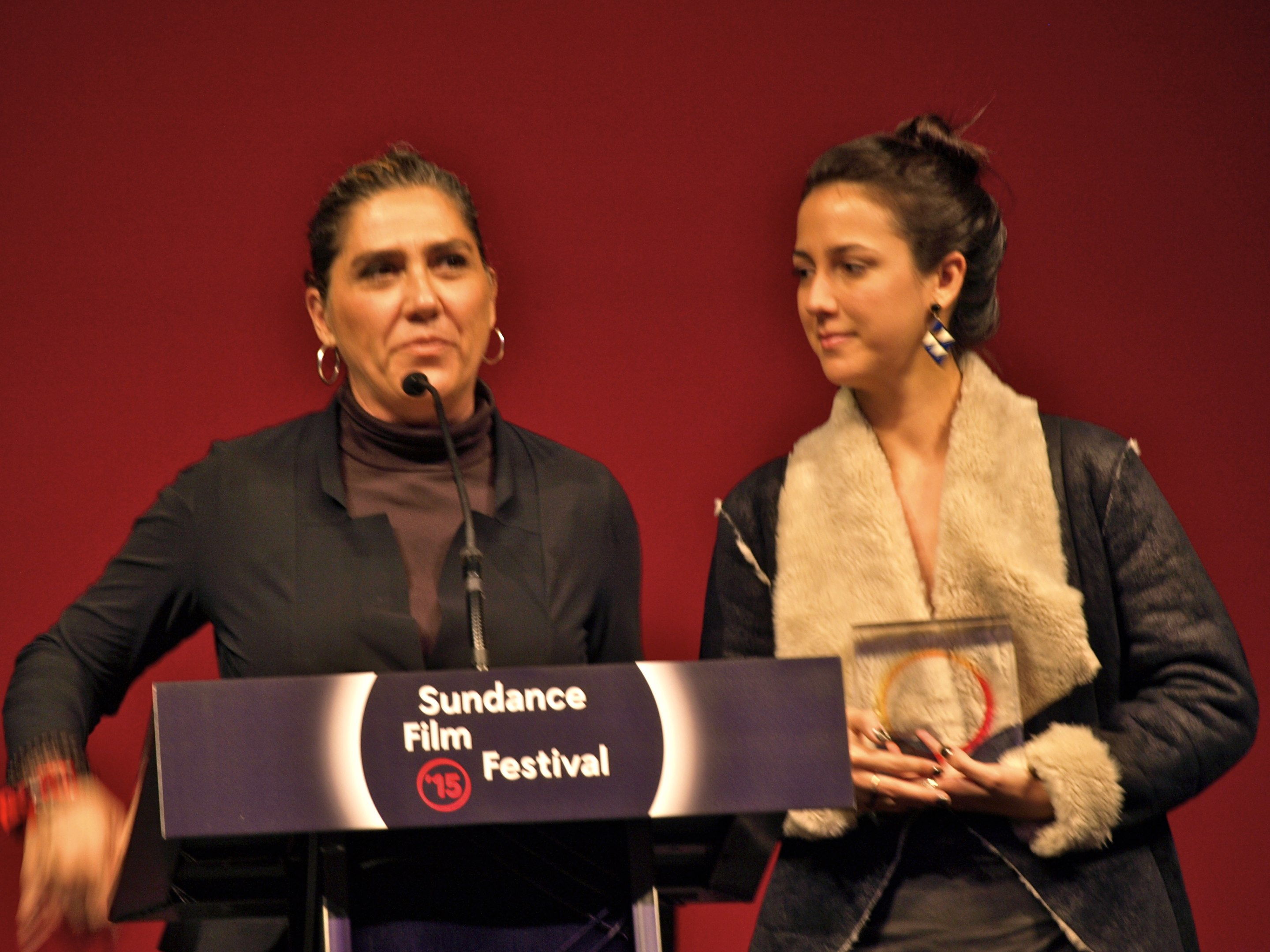 Regina Casé and Camila Márdila Close: Winner of the World Cinema Dramatic Special Jury Award for Acting: "The Second Mother" at Sundance 2015